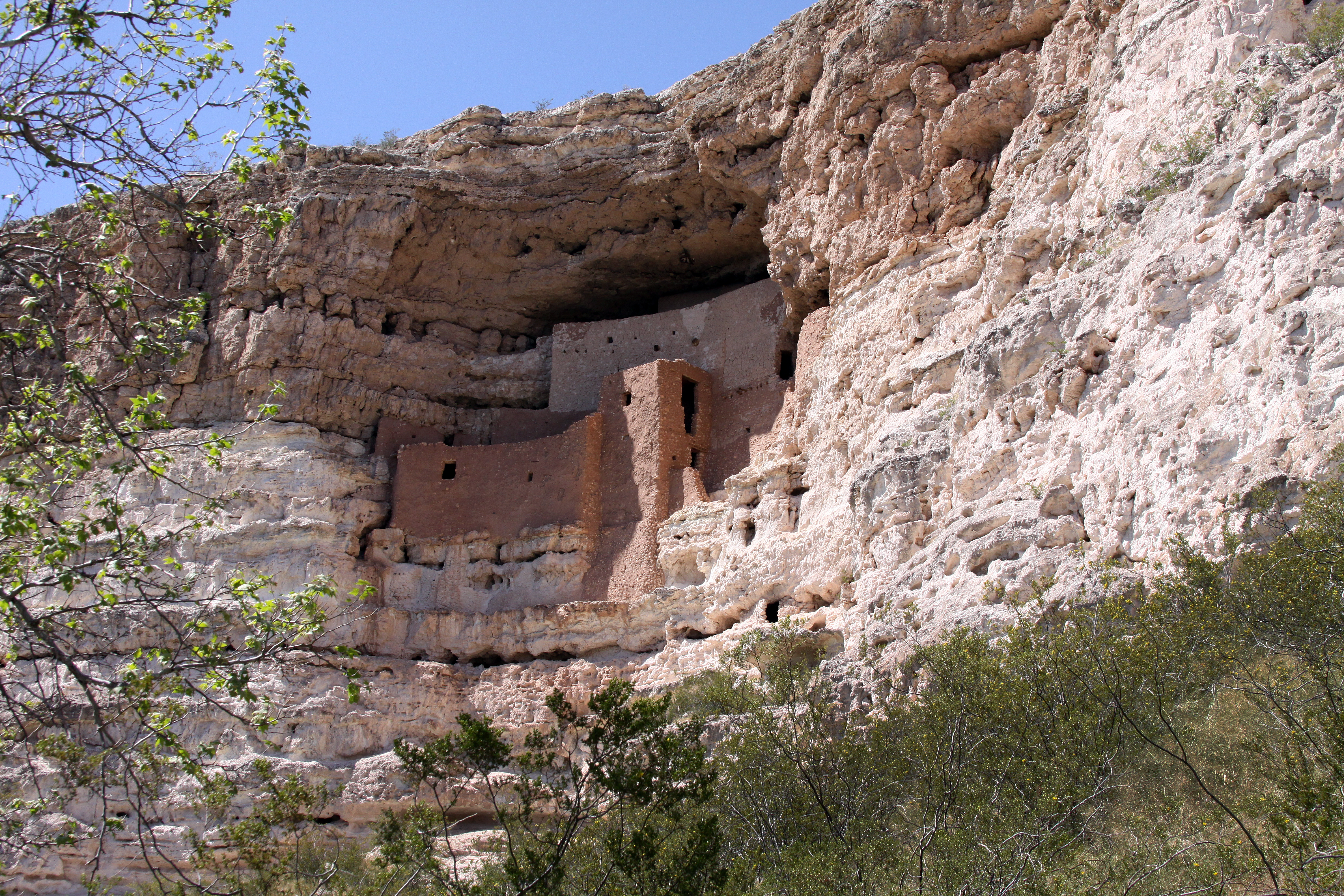 Montezuma´s castle in Arizona, from the Sinagua culture dating to 1000 years ago.